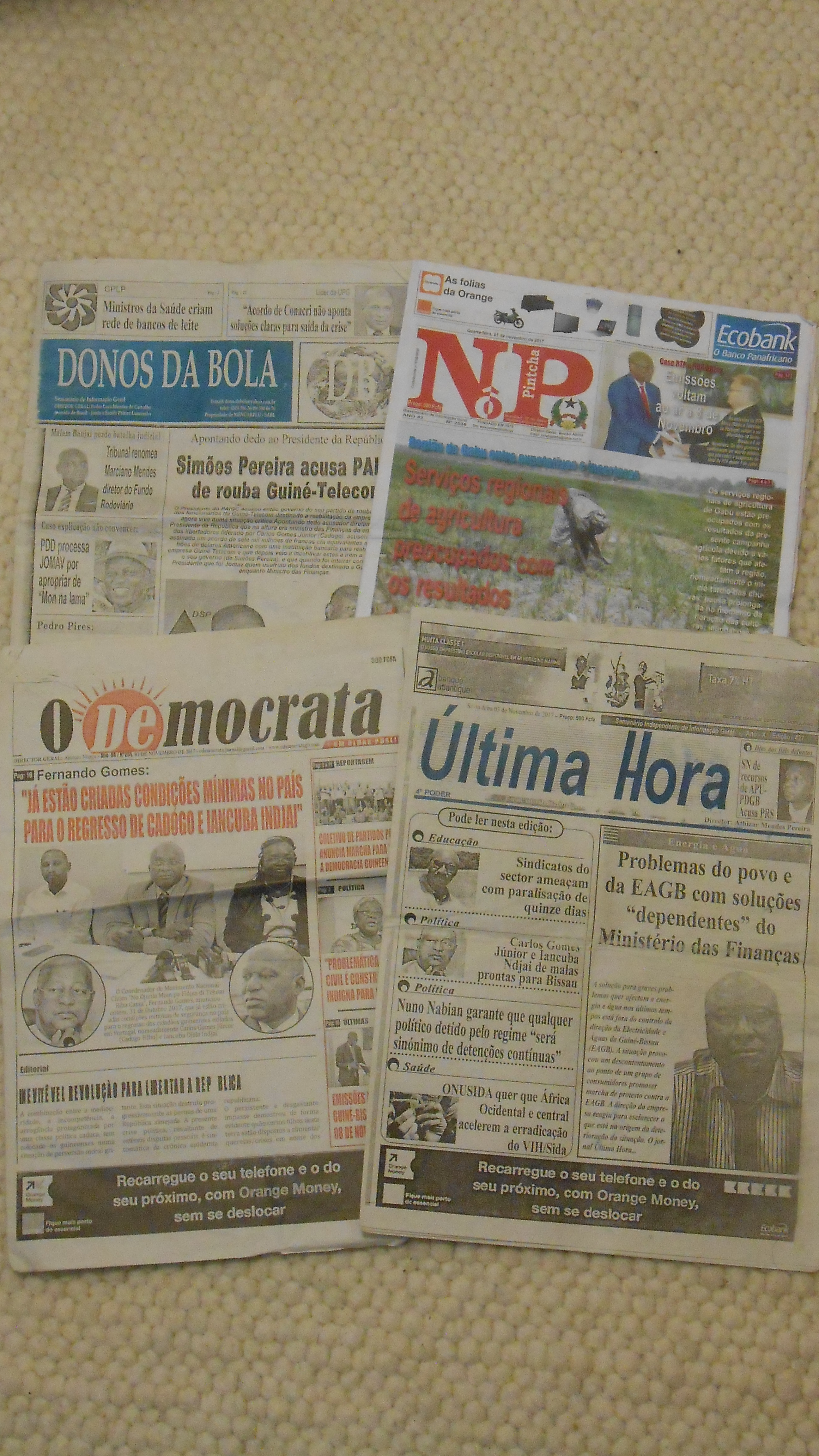 A random collection of newspapers of Guinea-Bissau.